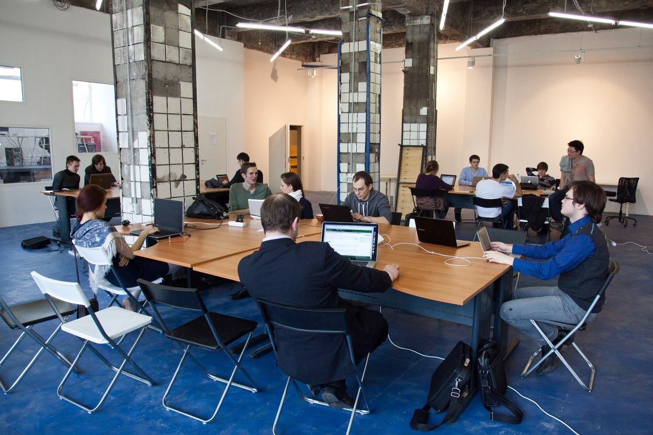 Zonaspace coworking in Saint Petersburg, Russia. Openspace for flexible desk plan.